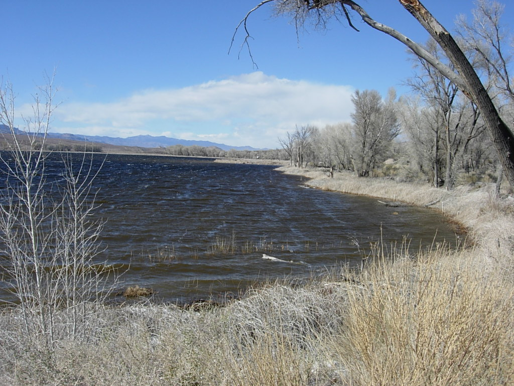 Pahranagat National Wildlife Refuge — upper lake.